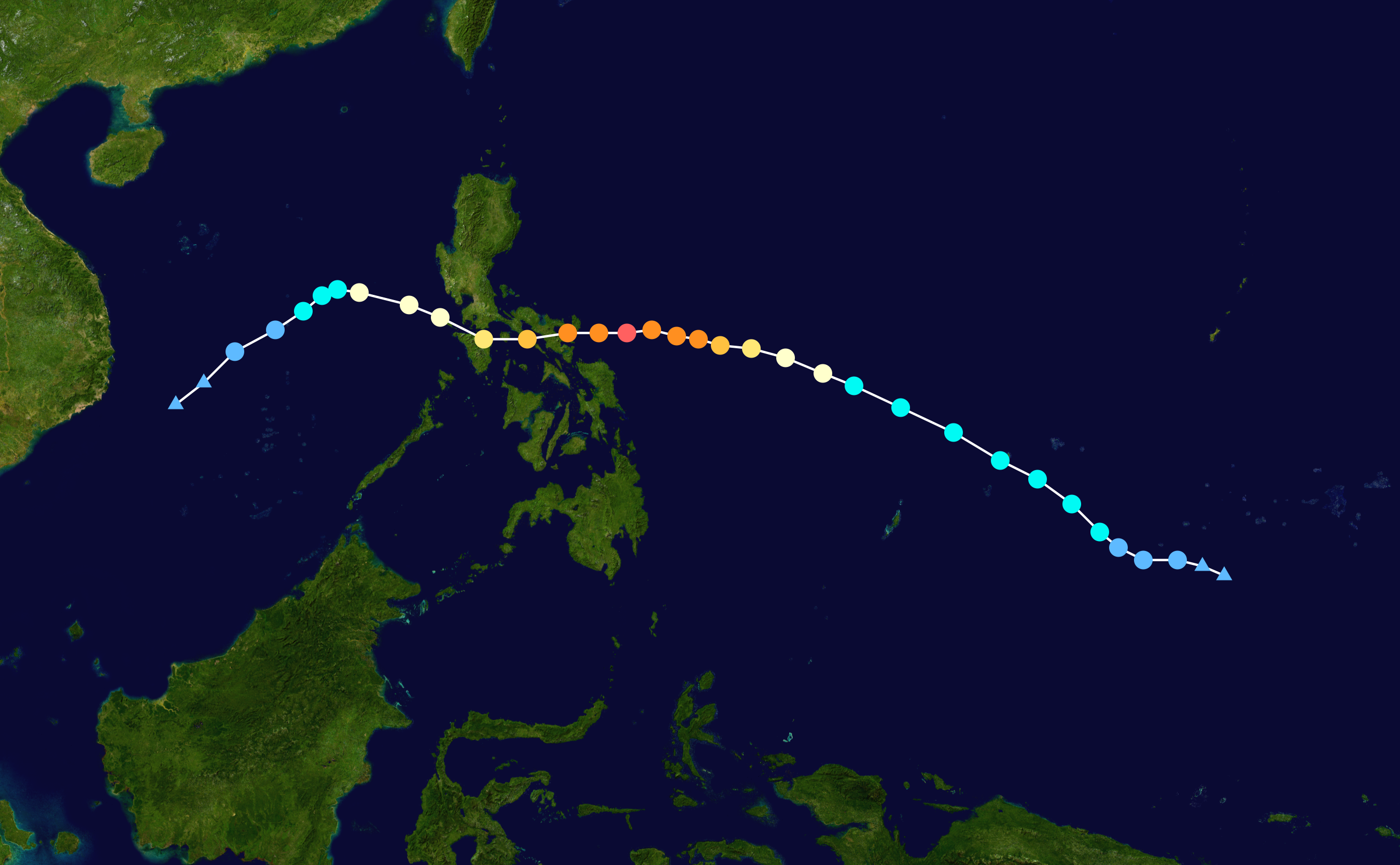 Track map of Typhoon Nock-ten of the 2016 Pacific typhoon season. The points show the location of the storm at 6-hour intervals. The colour represents the storm's maximum sustained wind speeds as classified in the Saffir–Simpson scale (see below), and the shape of the data points represent the nature of the storm, according to the legend below. Saffir–Simpson scale Tropical depression≤38 mph≤62 km/h Category 3111–129 mph178–208 km/h Tropical storm39–73 mph63–118 km/h Category 4130–156 mph209–251 km/h Category 174–95 mph119–153 km/h Category 5≥157 mph≥252 km/h Category 296–110 mph154–177 km/h Unknown Storm type Tropical cyclone Subtropical cyclone Extratropical cyclone / Remnant low / Tropical disturbance / Monsoon depression